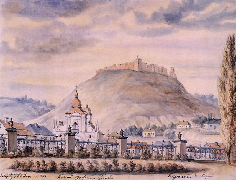 Krzemieniec